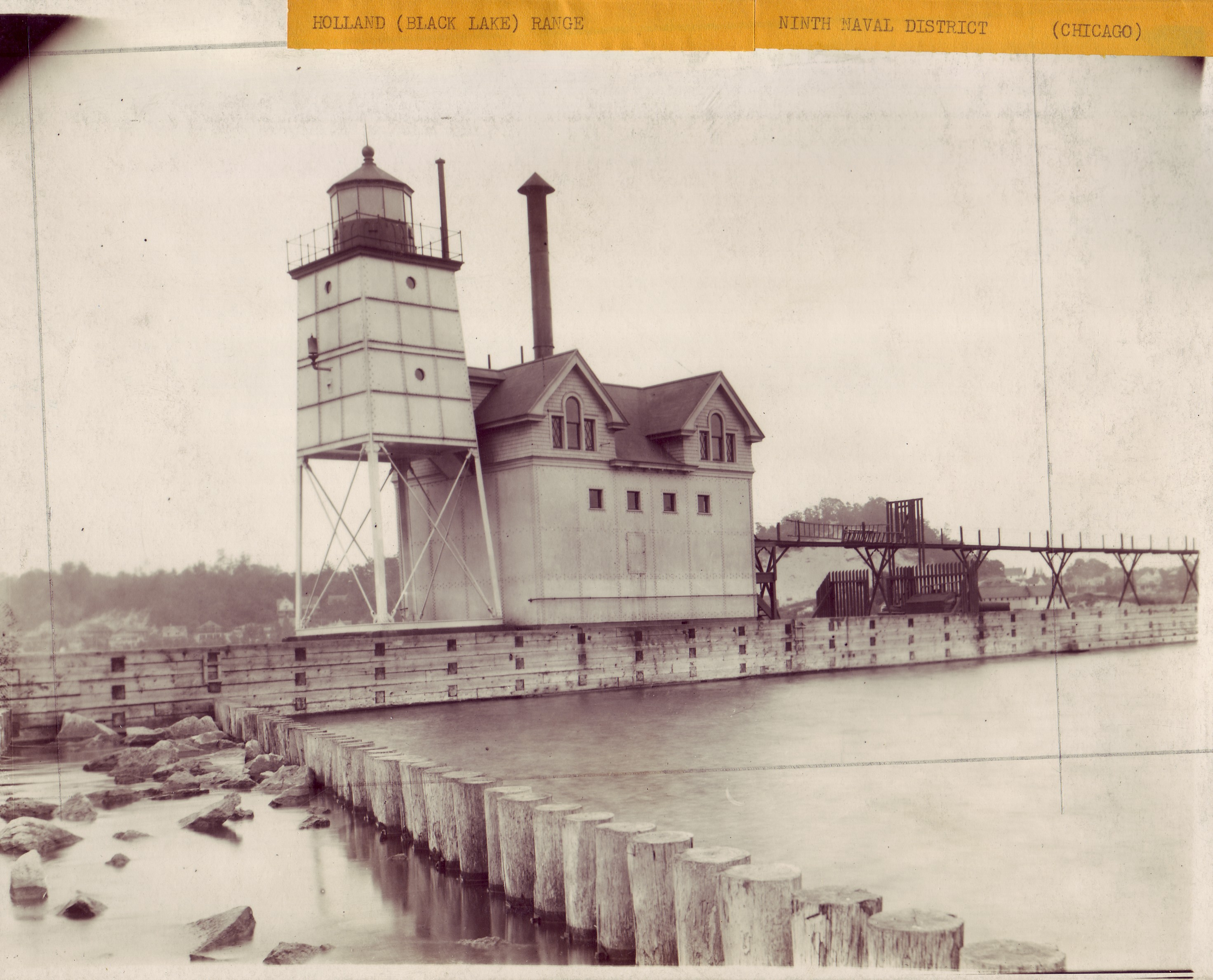 U.S. Coast Guard Archive Photo of the original Holland Harbor Lighthouse. Holland (Black Lake) Range Light: (300 dpi); Original caption: "HOLLAND (BLACK LAKE) RANGE [;] NINTH NAVAL DISTRICT (CHICAGO) [;] REAR LIGHT & FOG SIGNAL. 100 FT. S. S. E. [;] AUGUST 1913."; No photo number; photographer unknown.